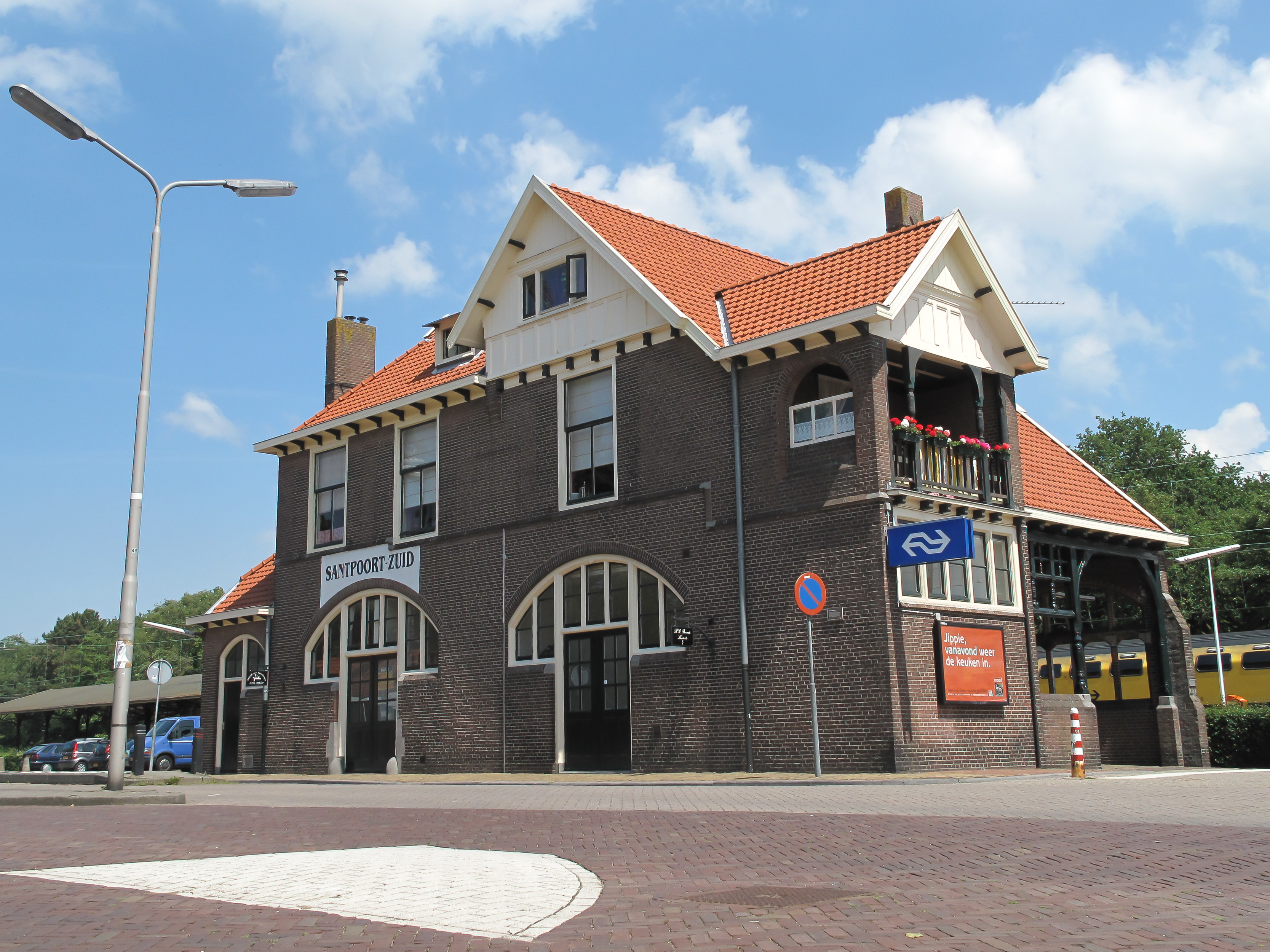 Santpoort-Zuid, railway station